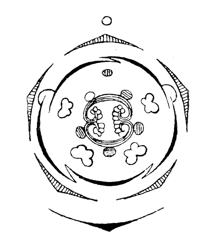 flower diagram of Gesneria pendulina